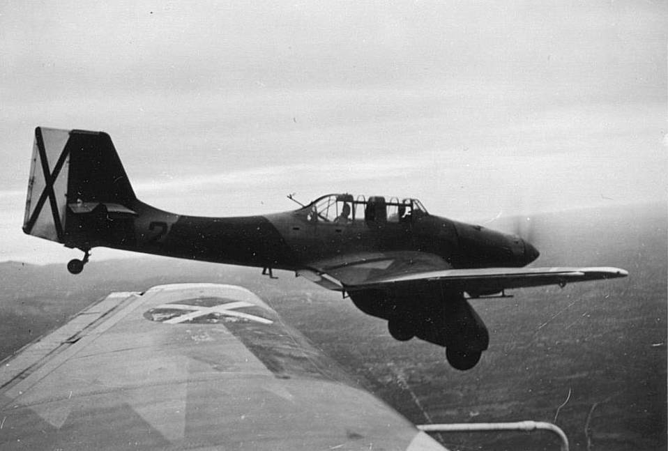 Condor Legion's Junkers Ju 87A with Spanish Civil War rebel markings